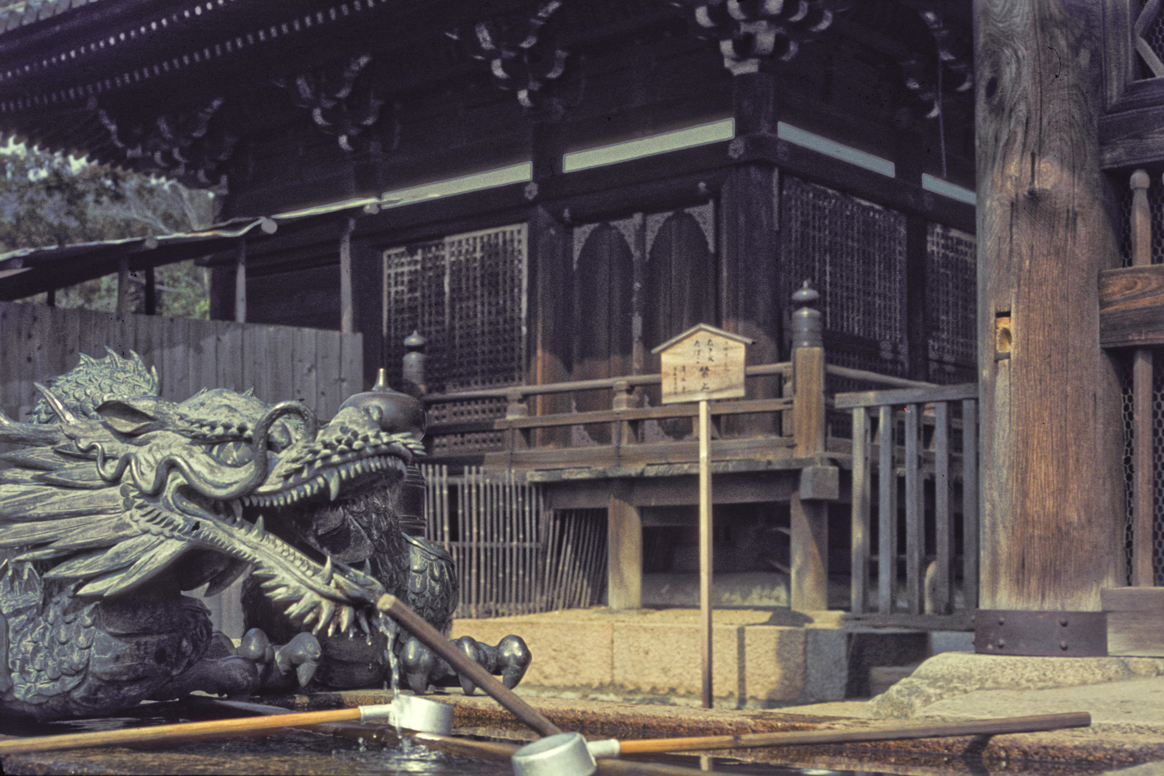 Dragon figure on "Owl Basin" at Kiyomizu Temple, Kyoto